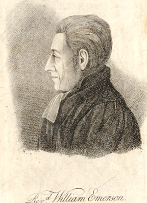 Portrait of Rev. William Emerson, Concord, Massachusetts.